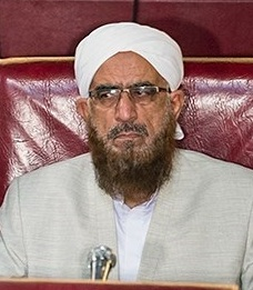 Ebrahim Raeesi and Nazir Ahmad Salami at a Assembly of Experts session